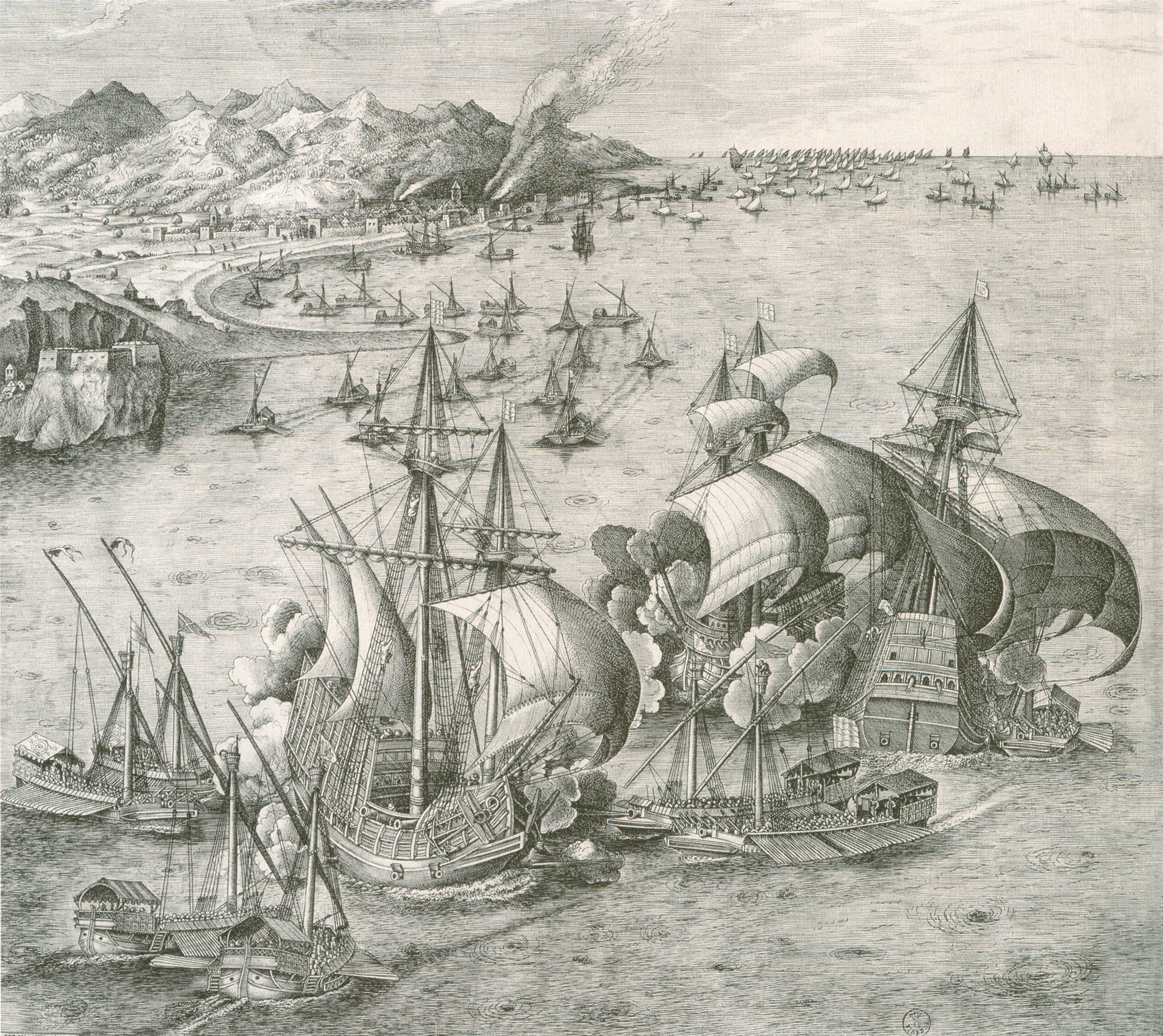 Battle of Messina Straights, engraving